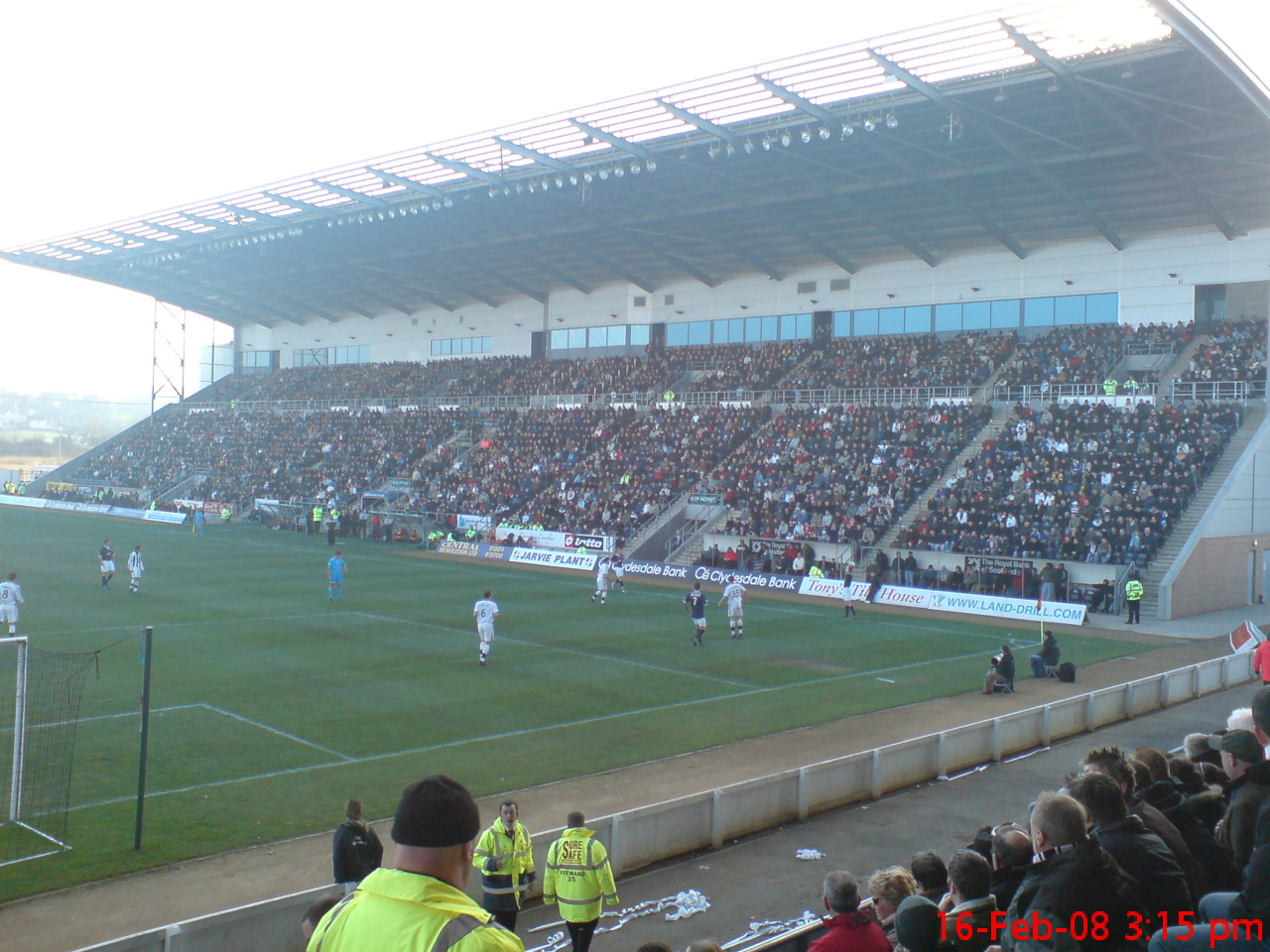 View from the North Stand, during a Clydesdale Premier League match with St Mirren